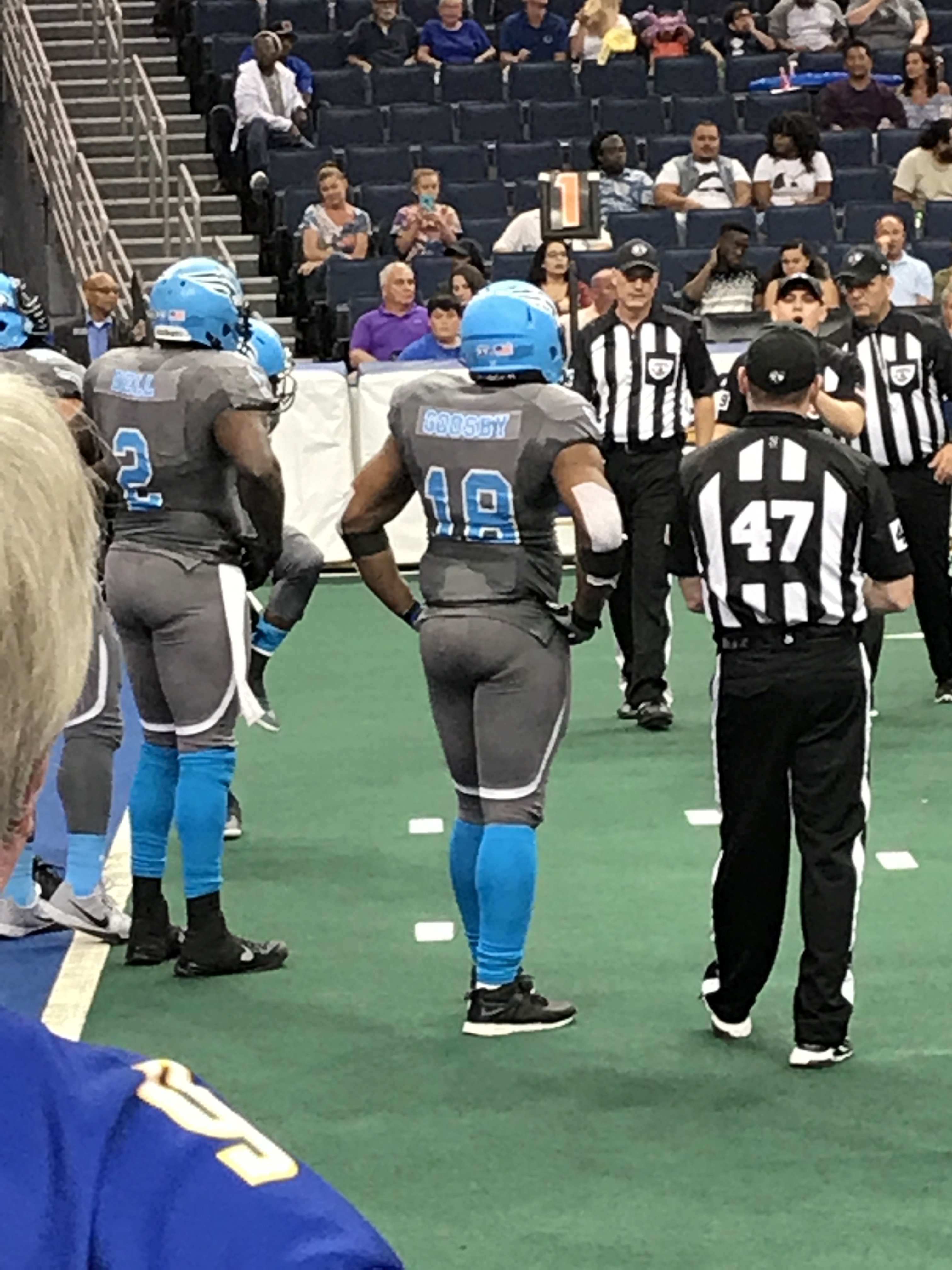 Joe Goosby